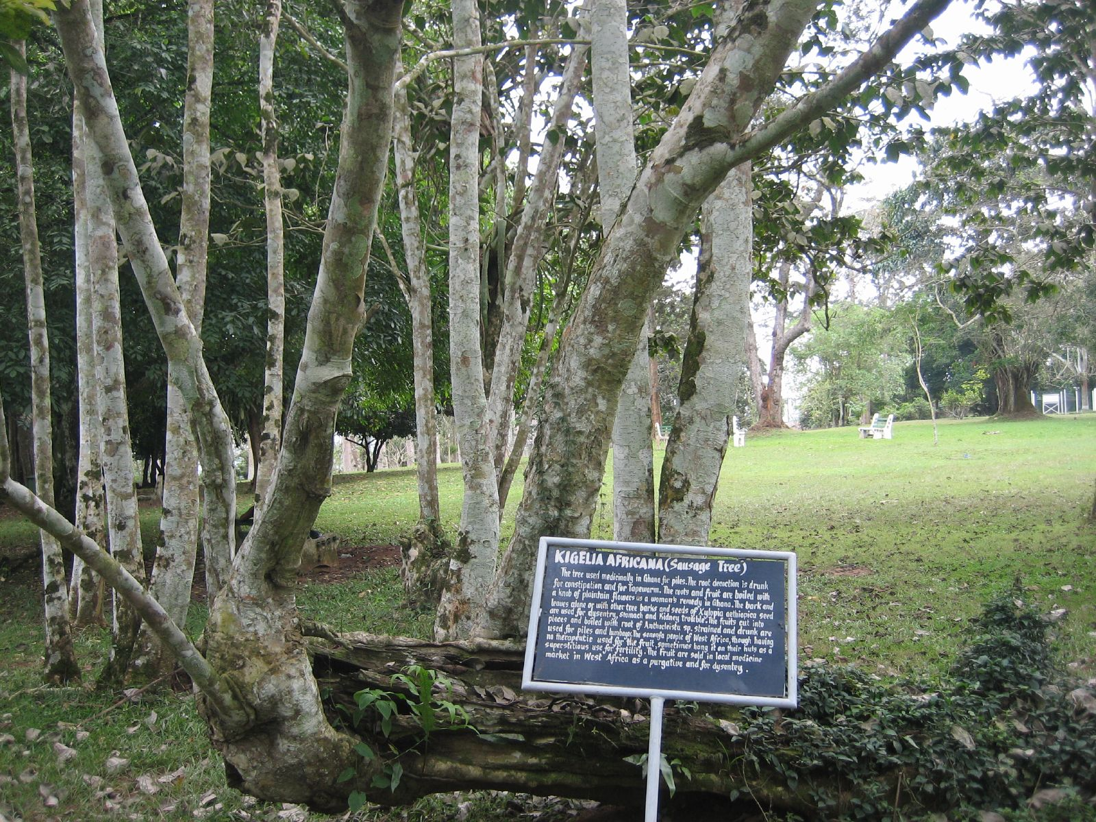 A sausage rree in Aburi Botanical gardens